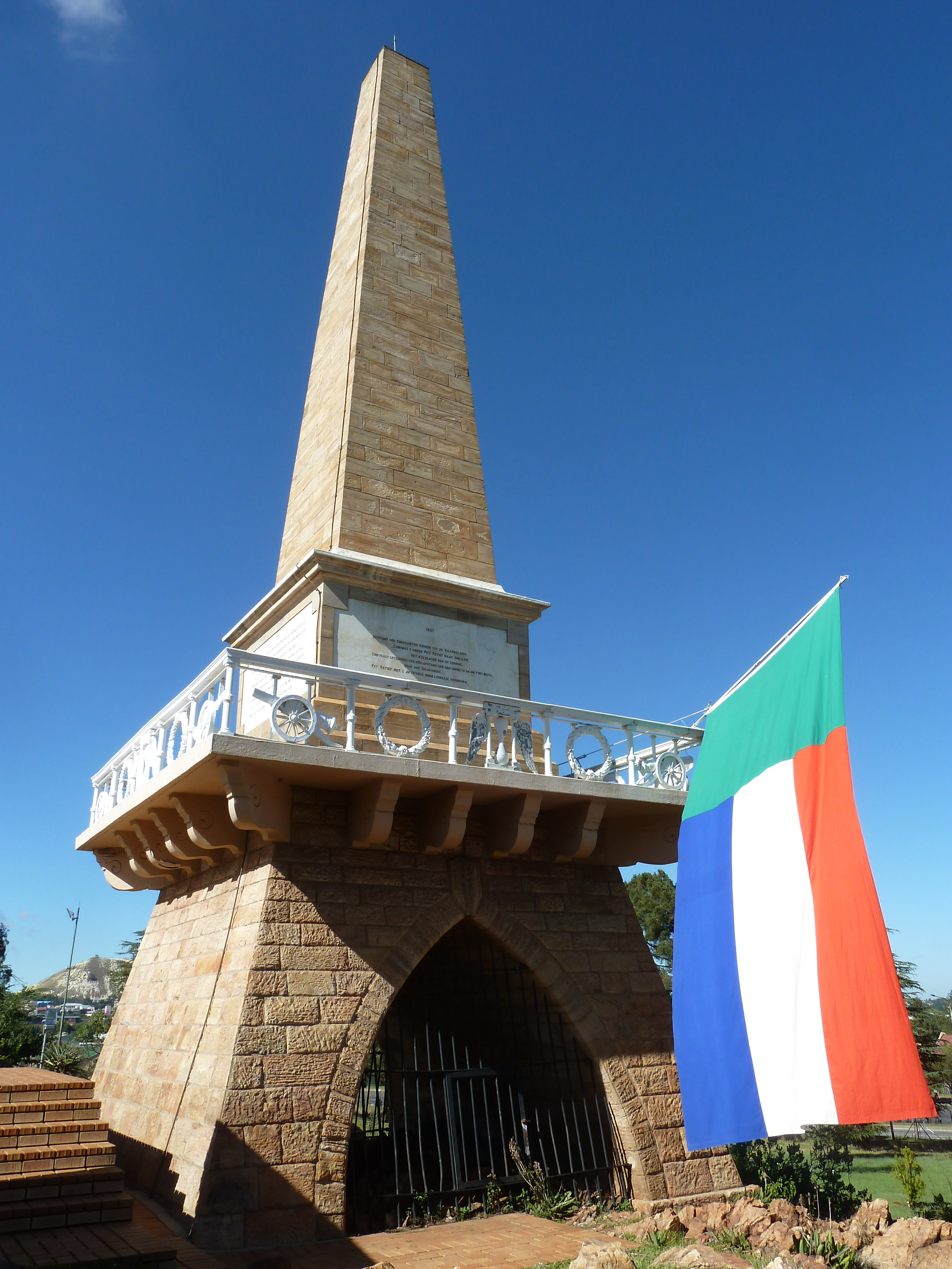 Paardekraal Monument in Krugersdorp, South Africa